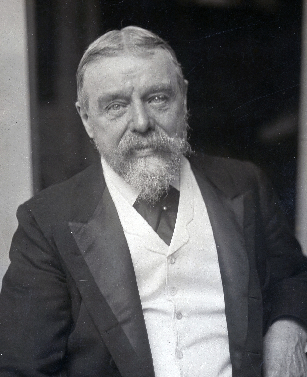 Lawrence Alma-Tadema, Dutch-British painter